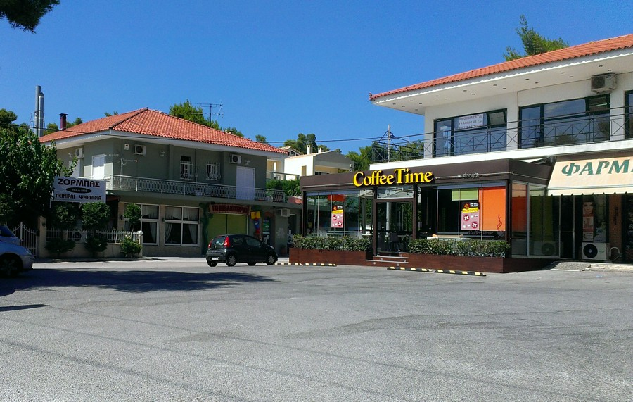 Καταστήματα εστίασης